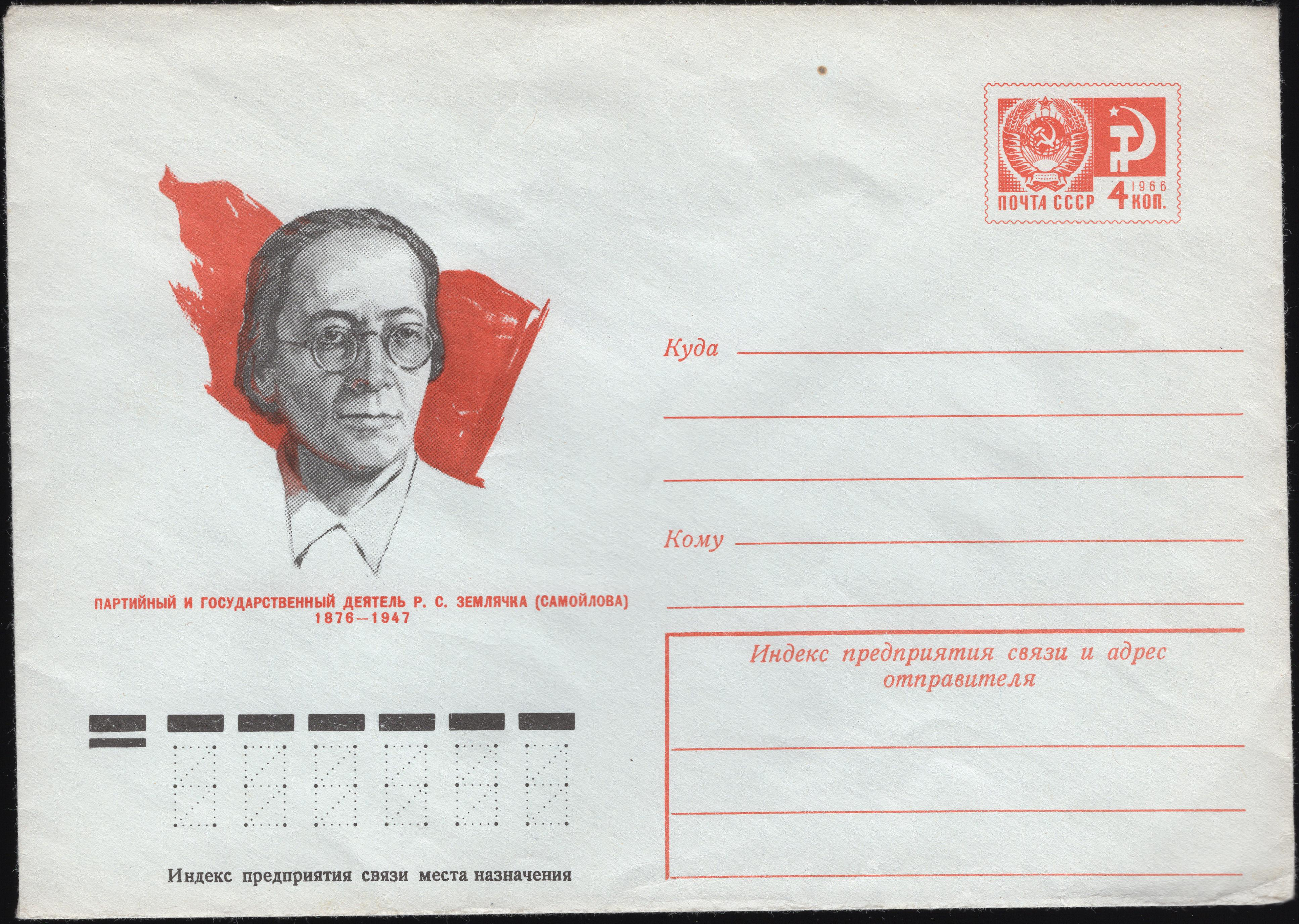 Statesman Rosalia Zemlyachka. 1876-1947. Series: Statesmans. Artist Peter Bendel.